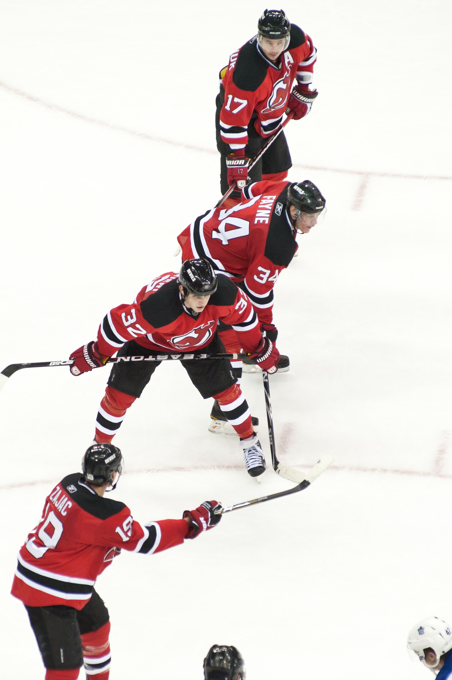 New Jersey Devils forward Travis Zajac (#19, foreground) instructs Nick Palmieri (#32), Mark Fayne (#34), and Ilya Kovalchuk (#17) prior to faceoff during a National Hockey League game against the Toronto Maple Leafs on April 6, 2011.